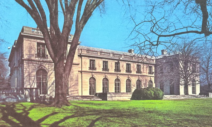 Rose Terrace (Dodge Mansion) Grosse Pointe Farms MI facade c 1971